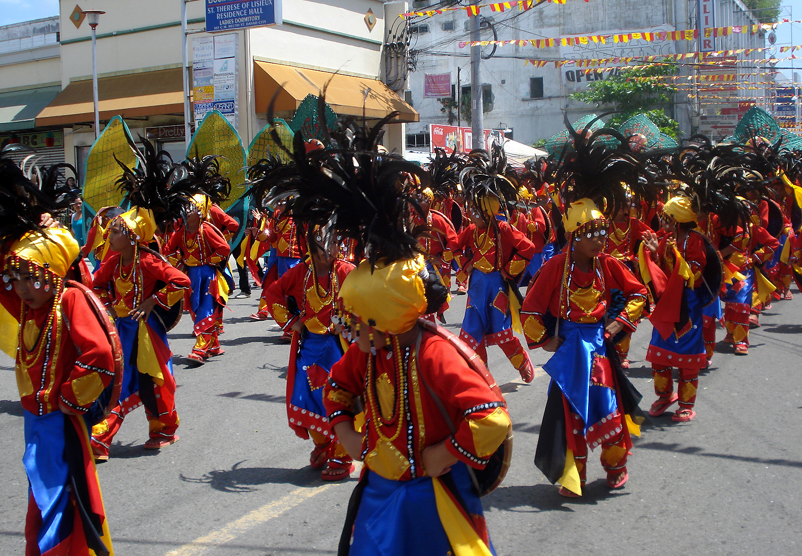 Street dancing competition, part of Kadayawan Festival celebration.